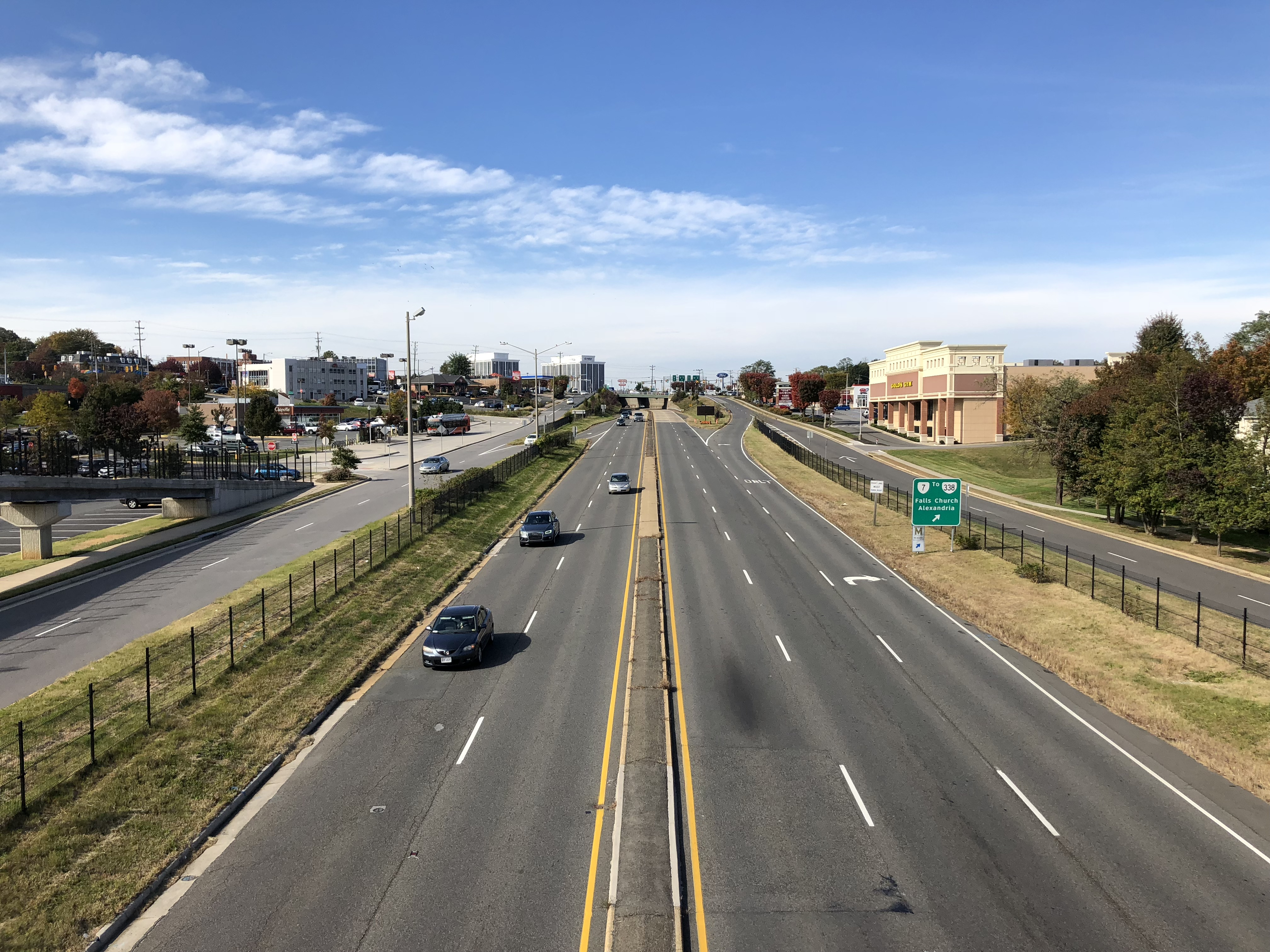 View west along U.S. Route 50 (Arlington Boulevard) from the pedestrian overpass near Peyton Randolph Drive in Seven Corners, Fairfax County, Virginia